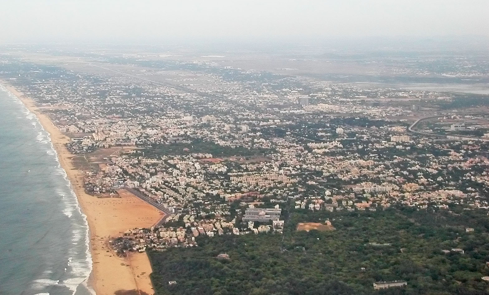 Aerial view of Besant Nagar, Thiruvanmiyur and other southern suburbs of Chennai . The Theosophical Society Adyar can be seen on the bottom right.